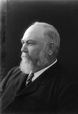 A 1909 black and white portrait of John Forrest, MHR for Swan